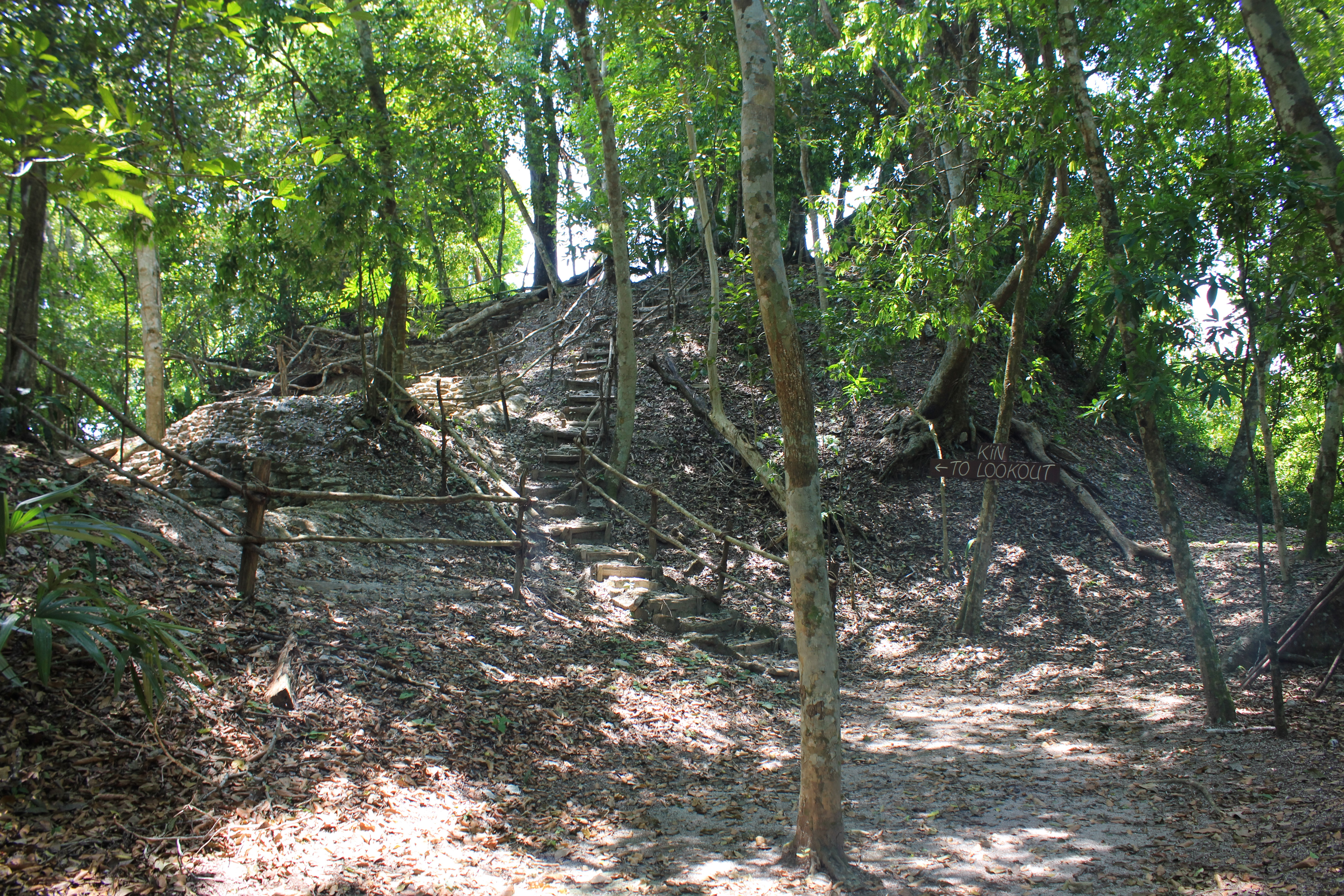 Path to lookout point in El Pilar (Belize side)